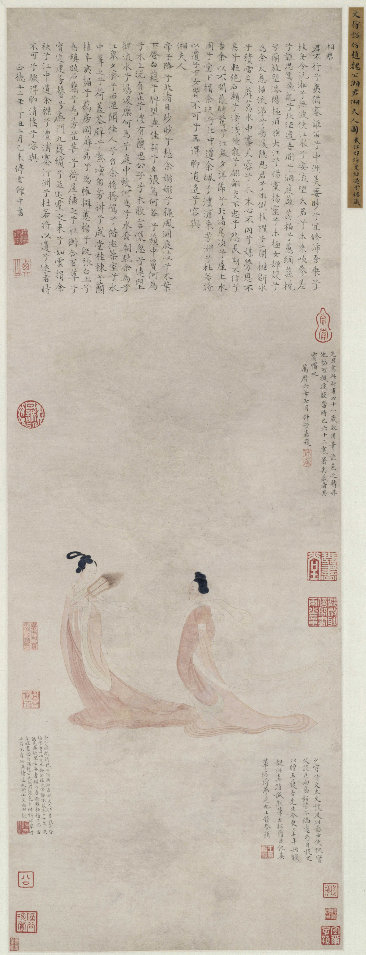 "Painted in 1517, the twelfth year of the Zhengde reign (1506-1521), when the painter was about forty-eight years old, this scroll illustrates two songs from the Nine Songs attributed to the legendary poet Qu Yuan (ca. 340 BCE-278 BCE): "The Goddess of the Xiang” (Xiang jun) and "The Lady of the Xiang” (Xiang furen). This is Wen Zhengming's earliest surviving figure painting. In the painting, the Goddess and the Lady of the Xiang keep each other company. One walks in front, holding a feather fan and looking back. The other stands in a relaxed pose. Their flowing robes echo with relaxed and genial facial expressions. The elegant, deliberate archaic portrayal of the ladies is achieved with fine brush lines resembling long, waving loose strands of a spider's web, characteristic drapery depiction in the tradition of Gu Kaizhi (345-406). Light ink wash, and the application of vermilion and lead white pigments also help bring out the antique spirit. The background is left completely blank, highlighting the ethereal elegance in their motion. Wen also inscribed the related two poems on the upper part of the scroll in his trademark smooth and handsome calligraphic style. According to the inscriptions by the painter and Wang Zhideng, Wen Zhengming once asked Qiu Ying (ca.1505-1552) to create a painting on this topic. Because Wen Zhengming was disappointed with Qiu's work, he painted this scroll himself. The "antique spirit” captured by Wen Zhengming is distinctively different from the aesthetic in Qiu Ying's works." —The Palace Museum